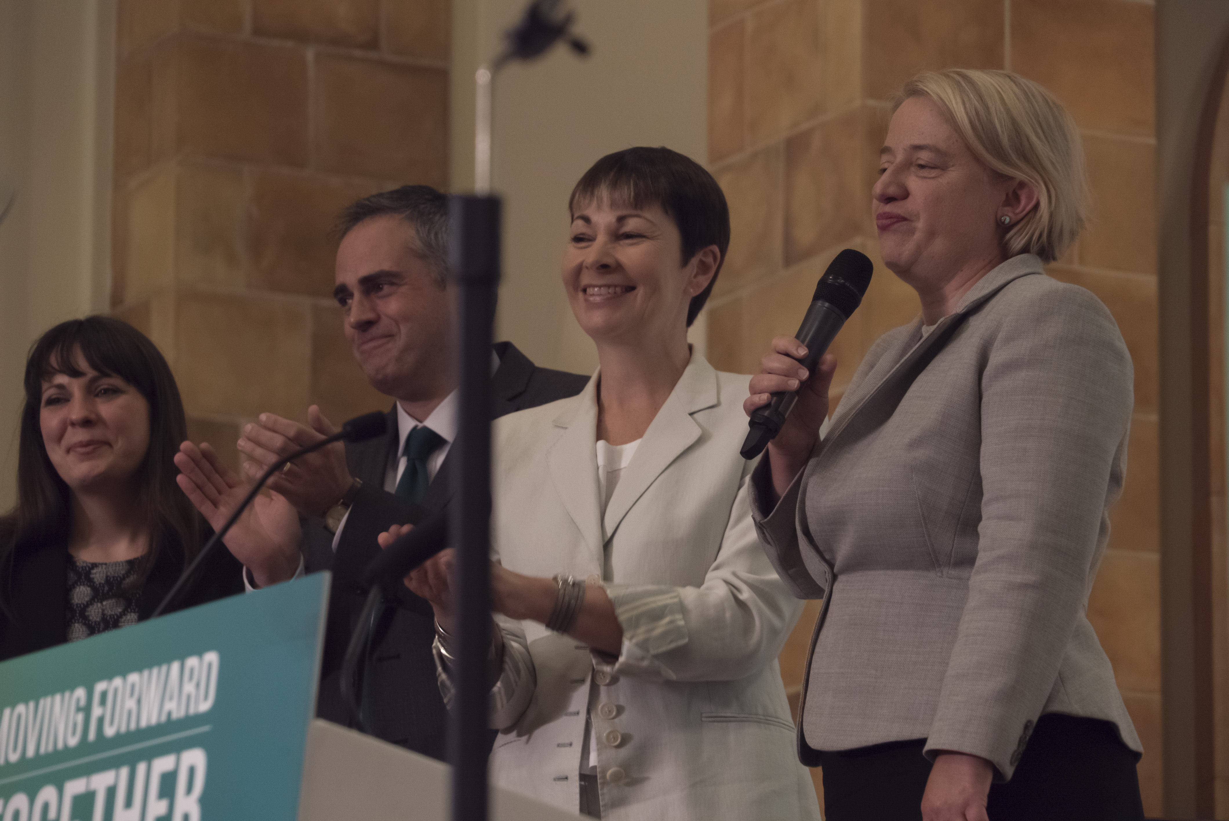 Natalie Bennett speaking at the Green Party Conference.